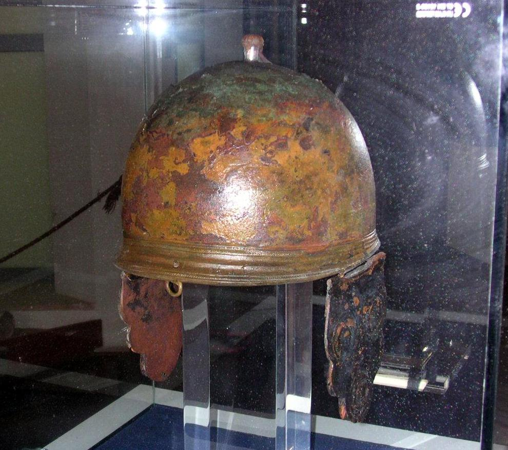 An etruscan helmet from the sea in front of italian town Sperlonga, in the local national archeological museum. The etruscan origin (around IV century BC) is granted by the three letters "TLE" in etruscan alphabet on the front side of the helmet (maybe the sign of the owner).